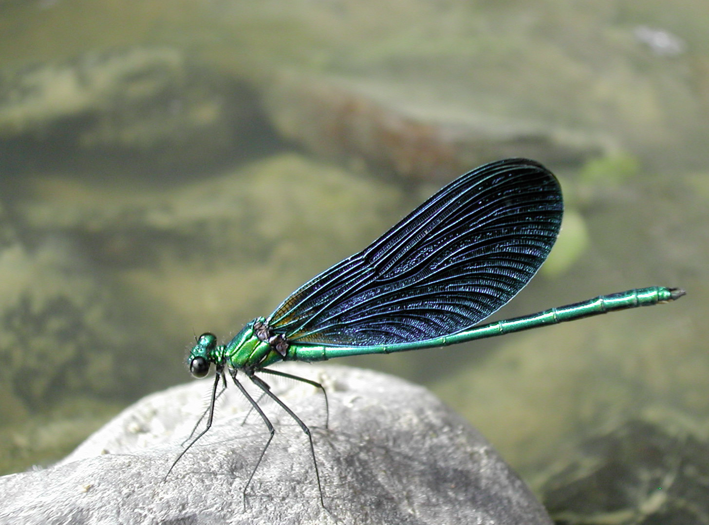 Damsel fly (large)- Bourbonnais, France